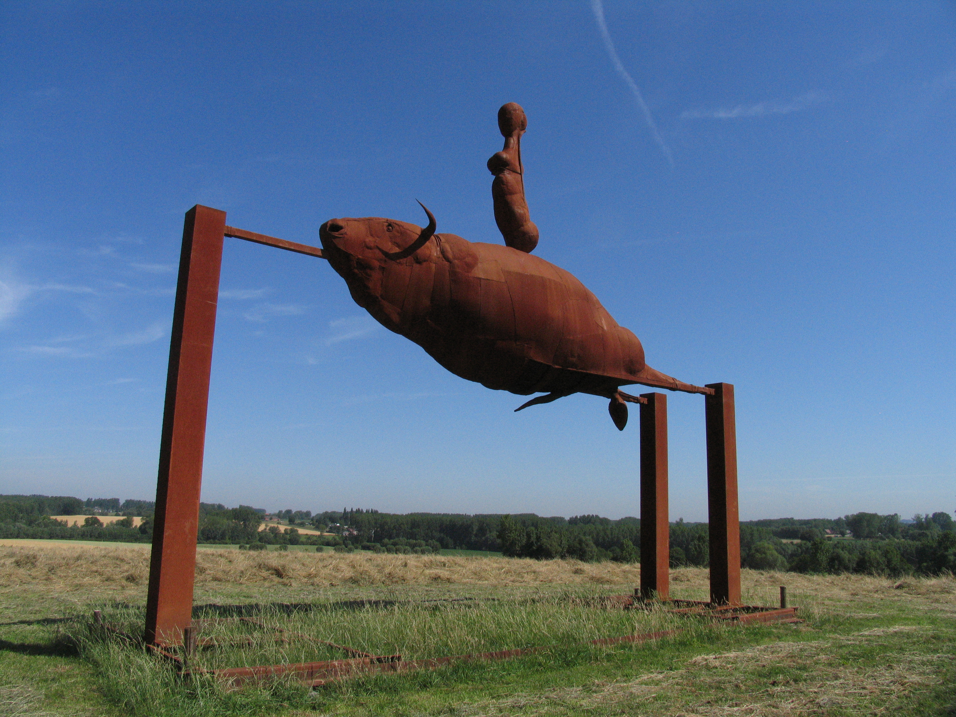 This photo of immovable heritage has been taken in the Flemish Region